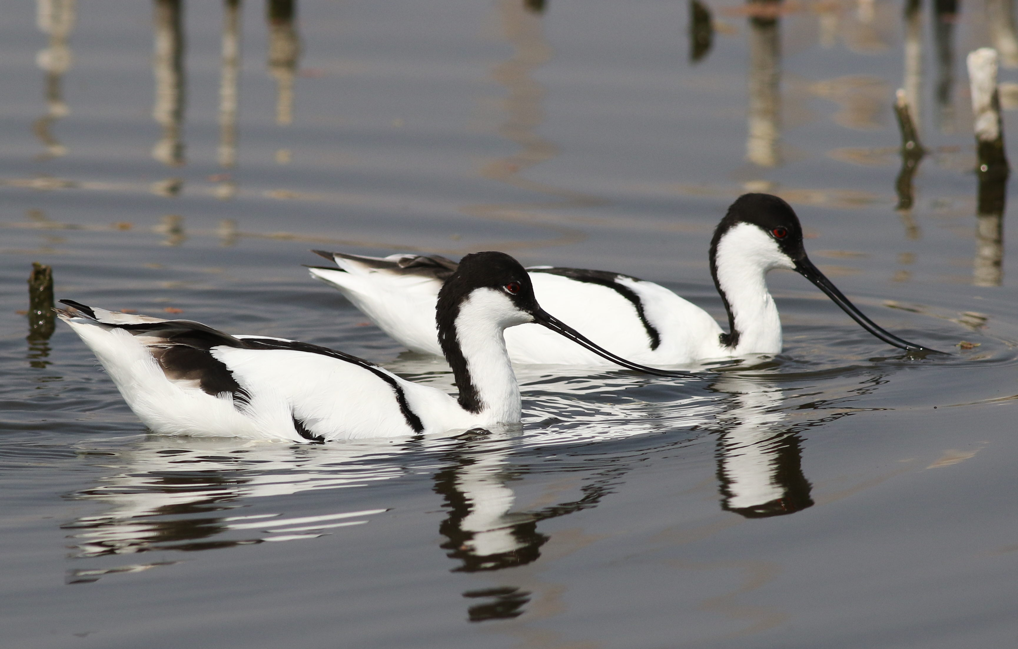 Pied Avocet, Recurvirostra avosetta at Marievale Nature Reserve, Gauteng, South Africa